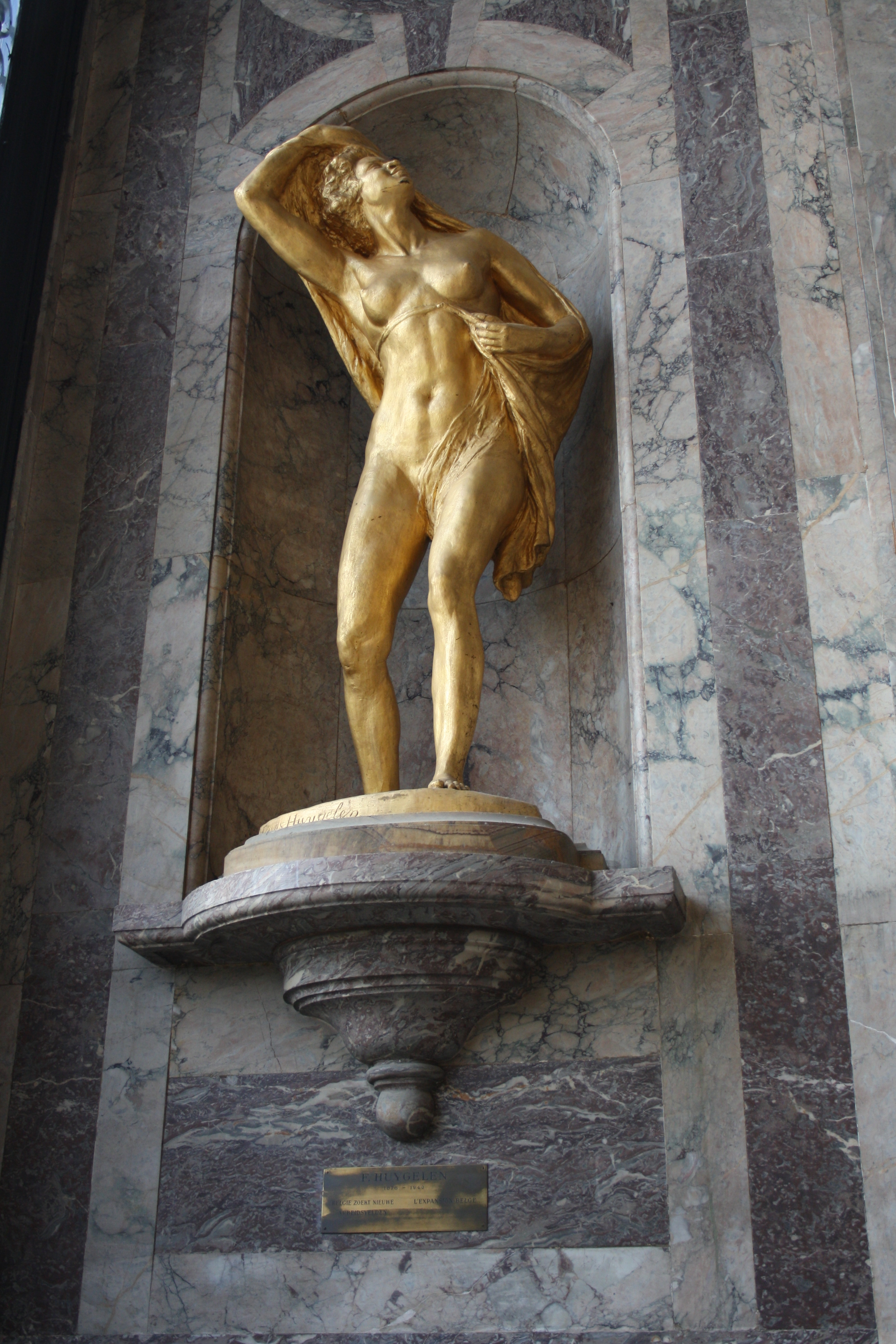 Sculpture "L'Expansion Belge" by Frans Huygelen (1878 - 1940) in the hall of the Royal Museum for Central Africa, Tervuren, Belgium.